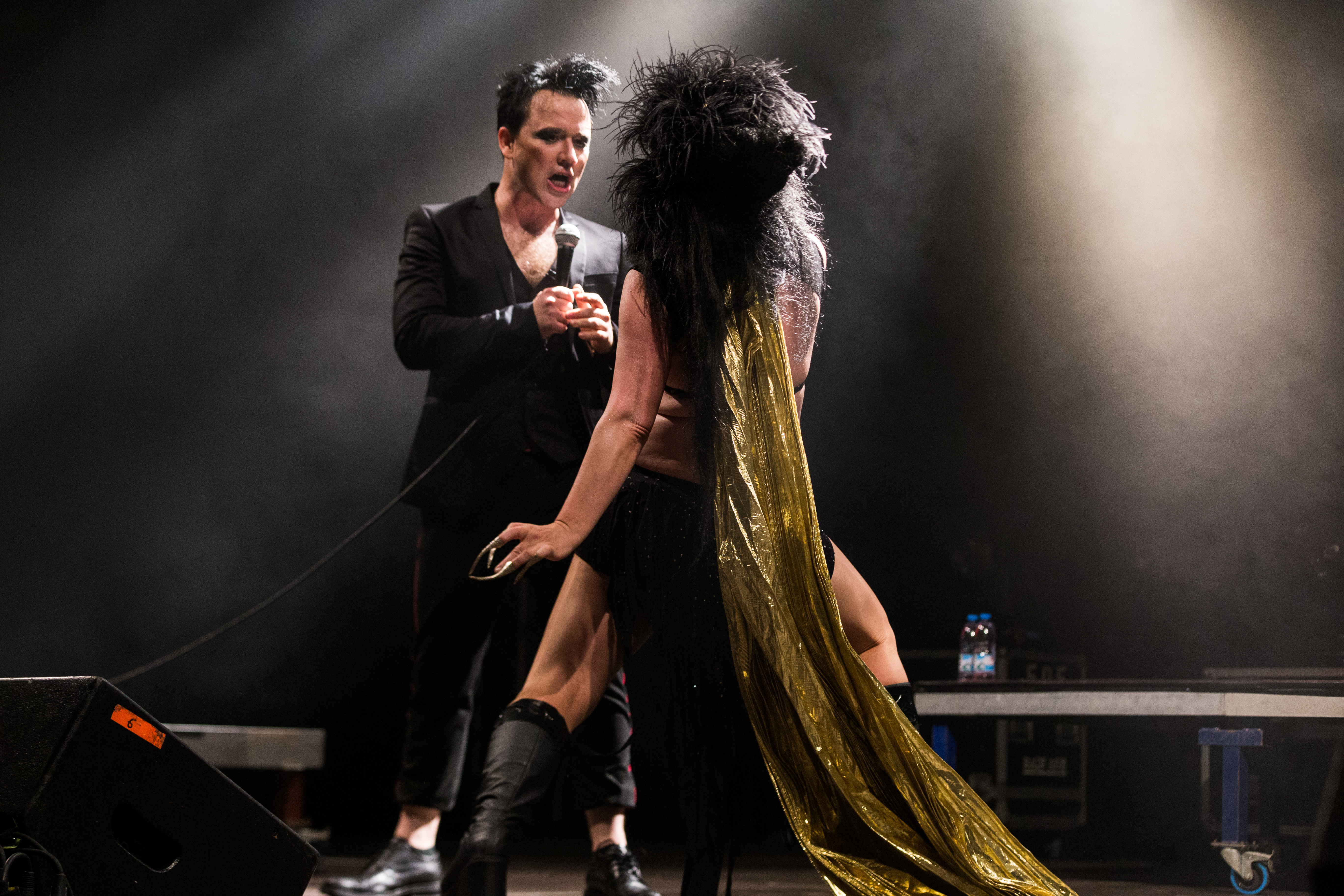 The German pop, chanson and rock duo Schneewittchen at the Wave-Gotik-Treffen 2017 in Leipzig/Germany (Venue Kohlrabizirkus).